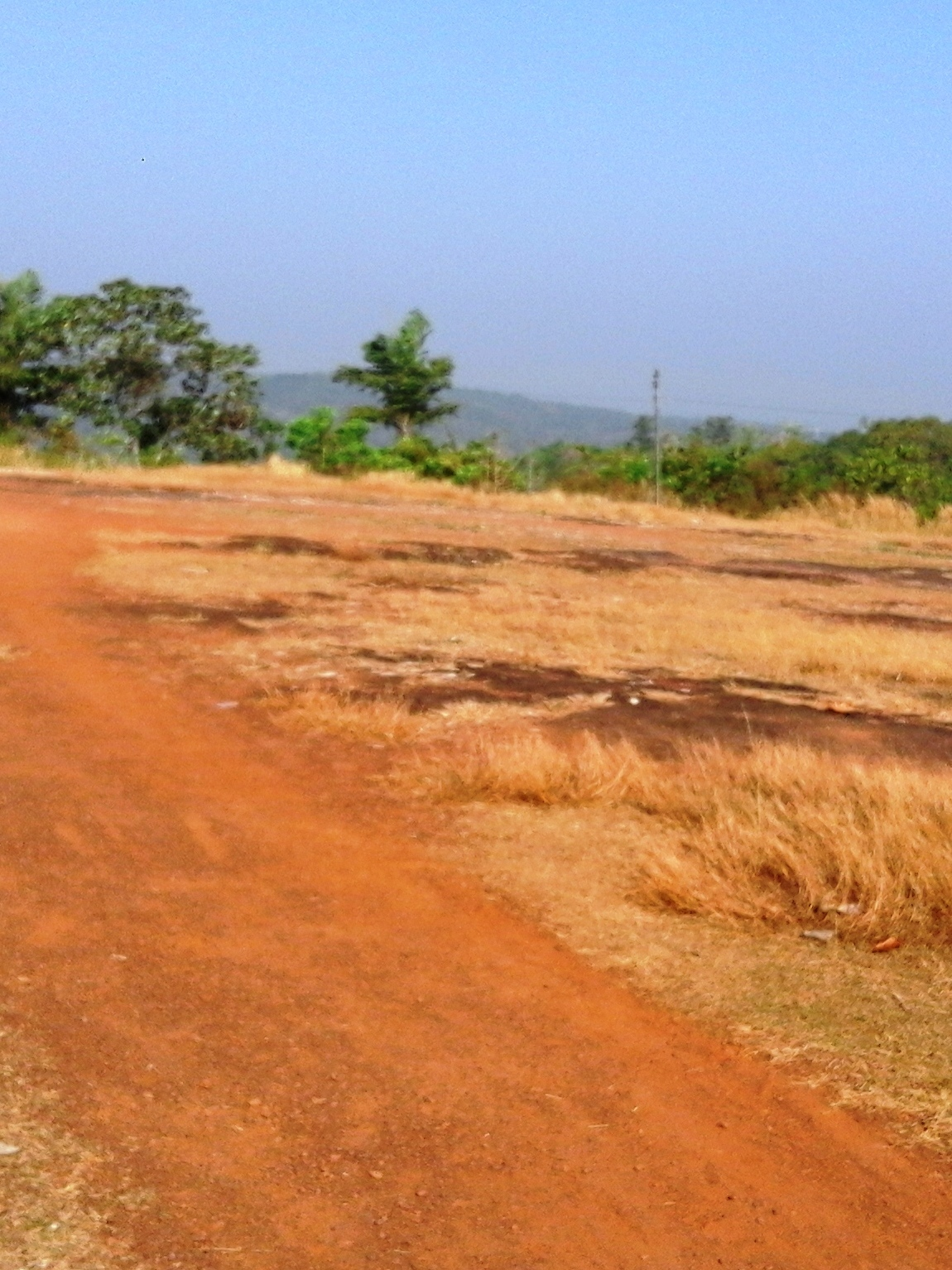 Pallippuram, Pattambi, Palakkad District, Kerala, India